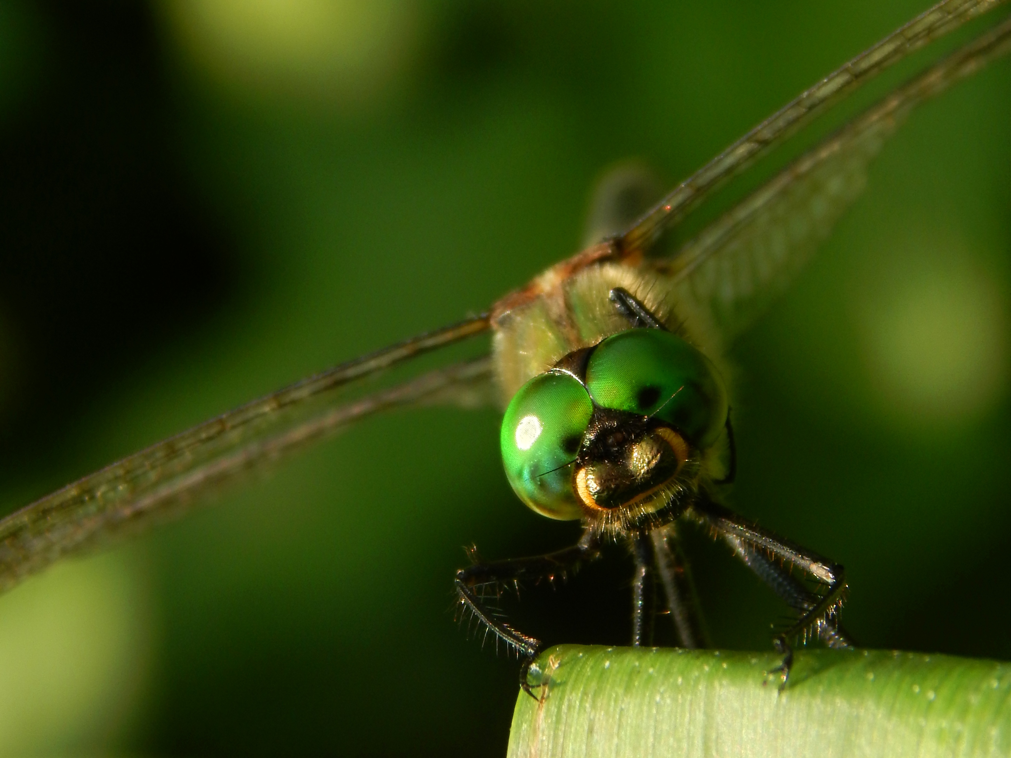 Balkan Emerald (Somatochlora meridionalis) Srpski (latinica): Vilinski konjic (Somatochlora meridionalis) izbliza.